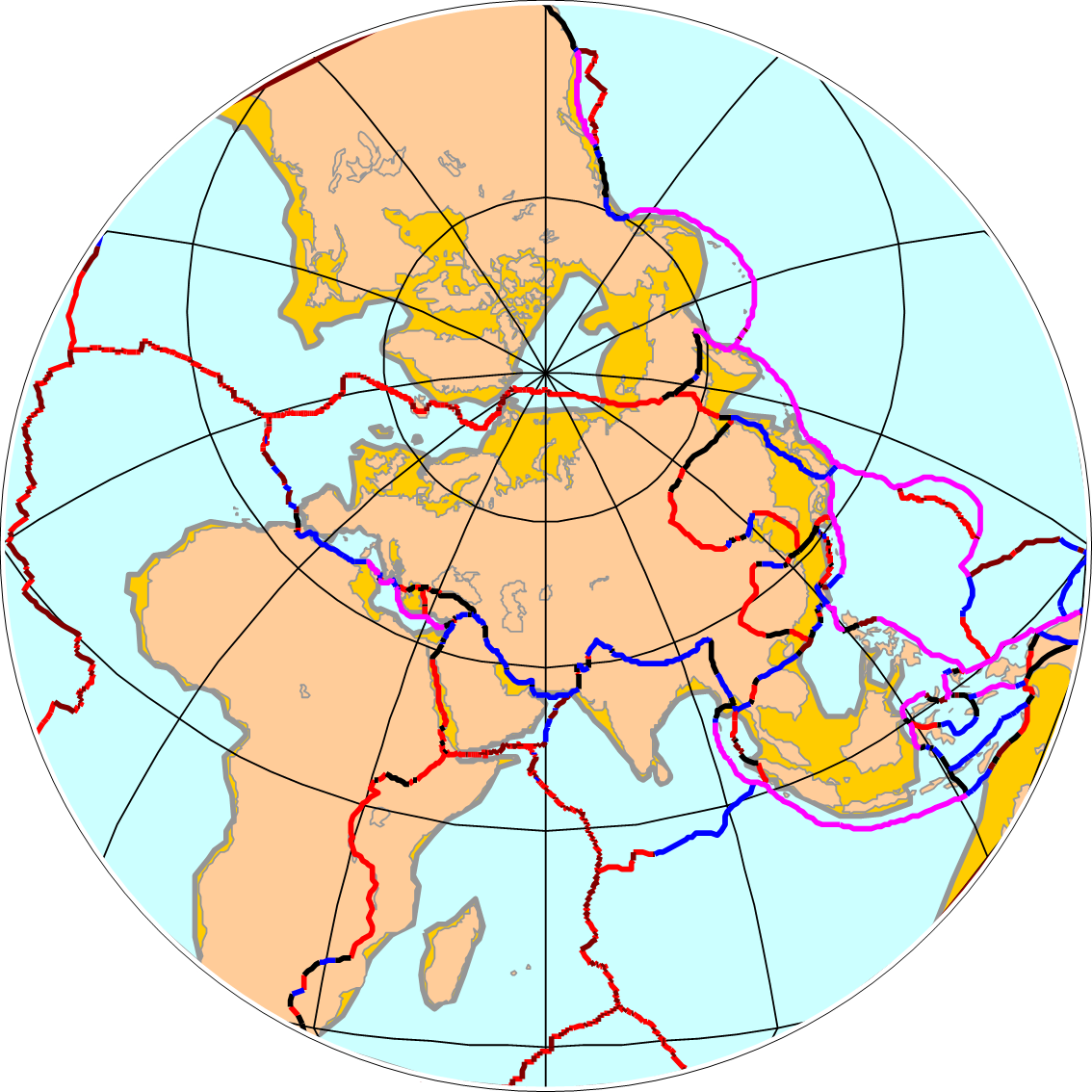 Eurasian tectonic plate. Azimuthal equidistant(?) projection.